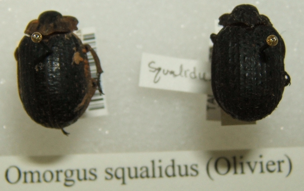 Omorgus squalidus adult taken by Shawn Hanrahan at the Texas A&M University Insect Collection in College Station, Texas.